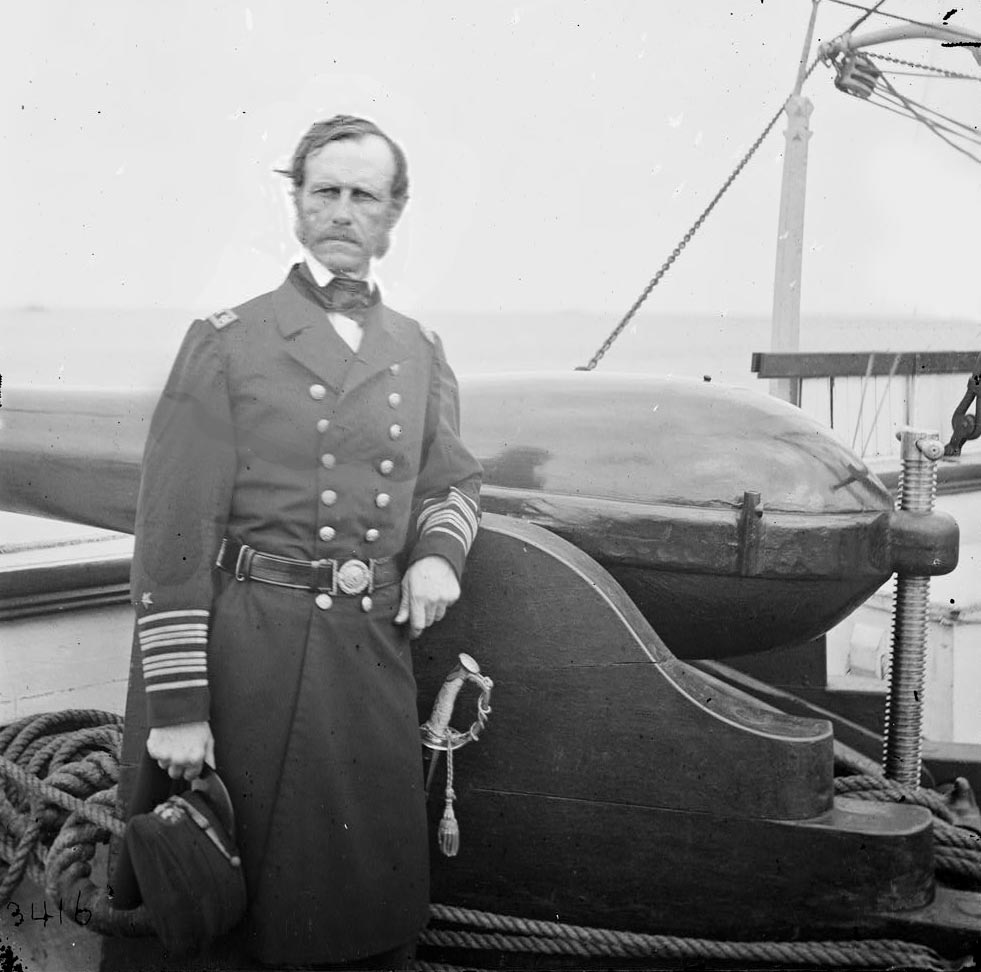 John A. Dahlgren, admiral for the Union in the US civil war